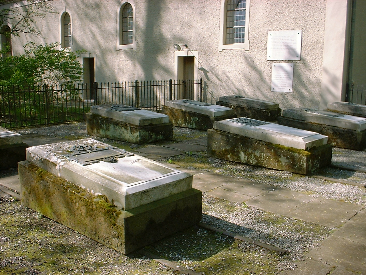 Cemetery of the Family von Arnim in Wiepersdorf (municipality Niederer Fläming), Brandenburg, Germany